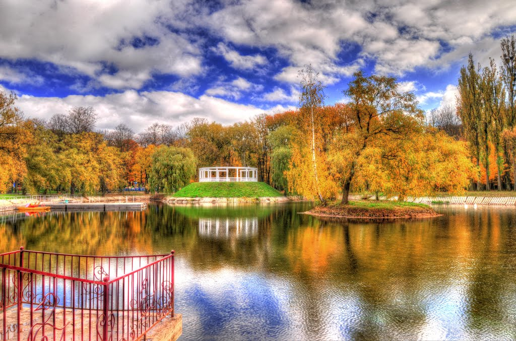 Suvorov Park, Kobryn, Belarus